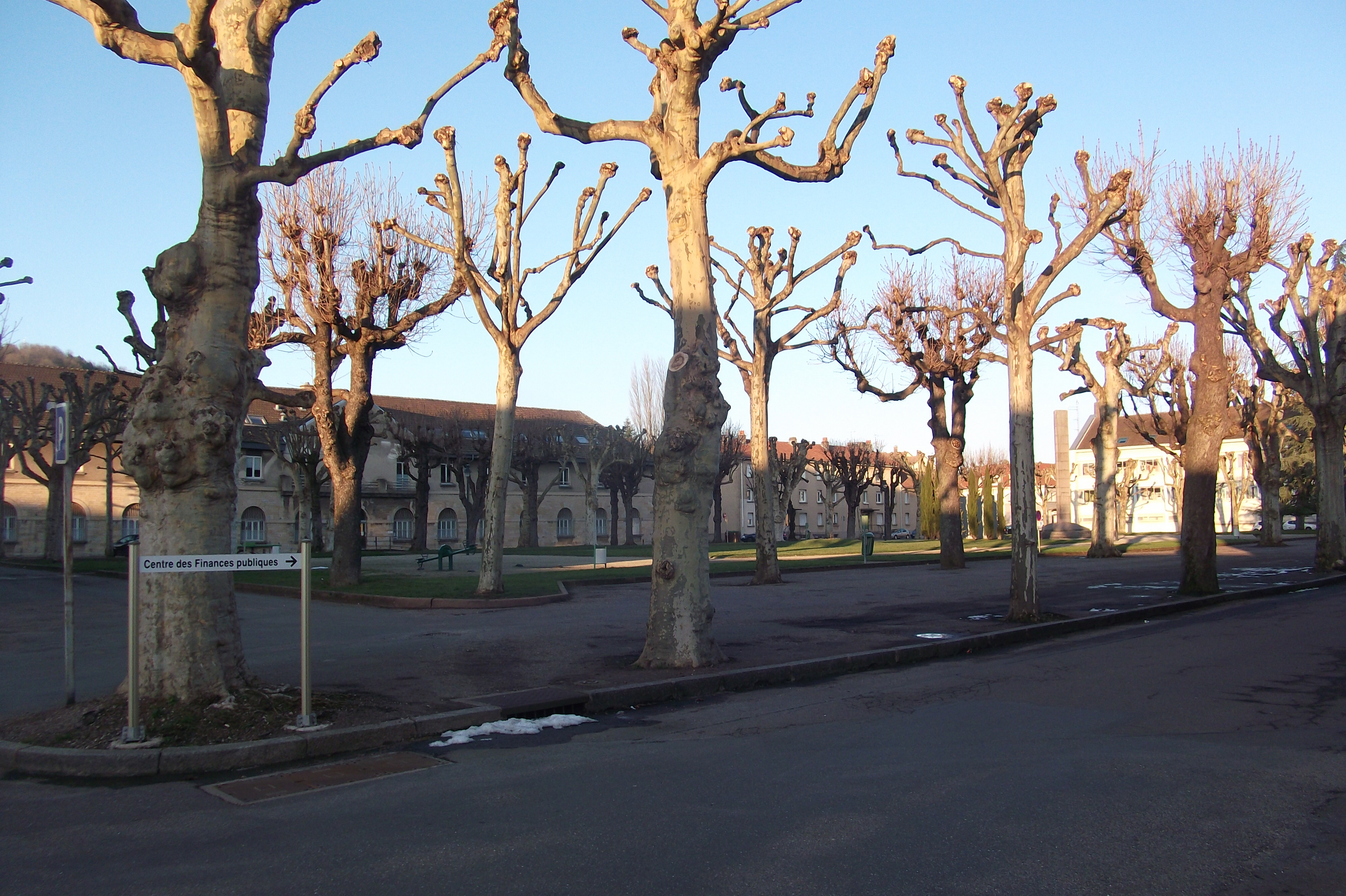 La place du 11ème chasseur à Vesoul